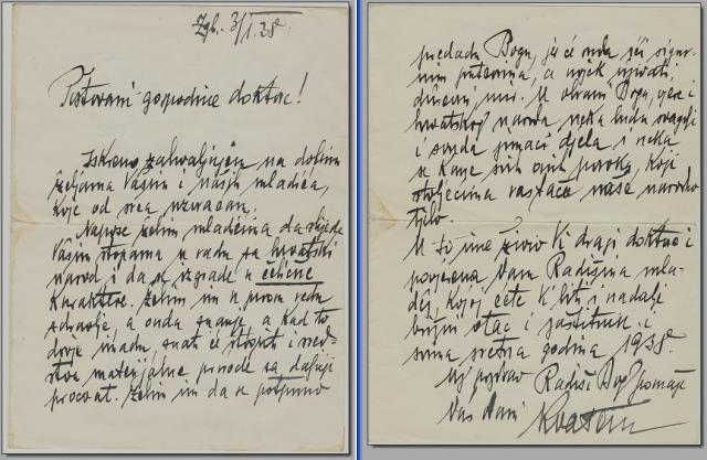 a a letter by Ustaše officer, Slavko Kvaternik